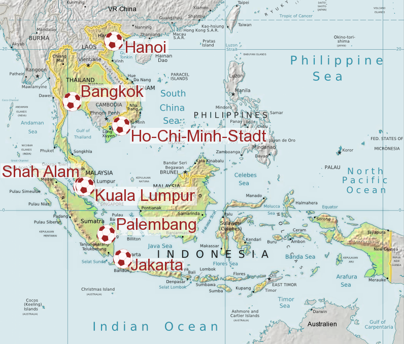 Hosts of the AFC Asian Cup 2007